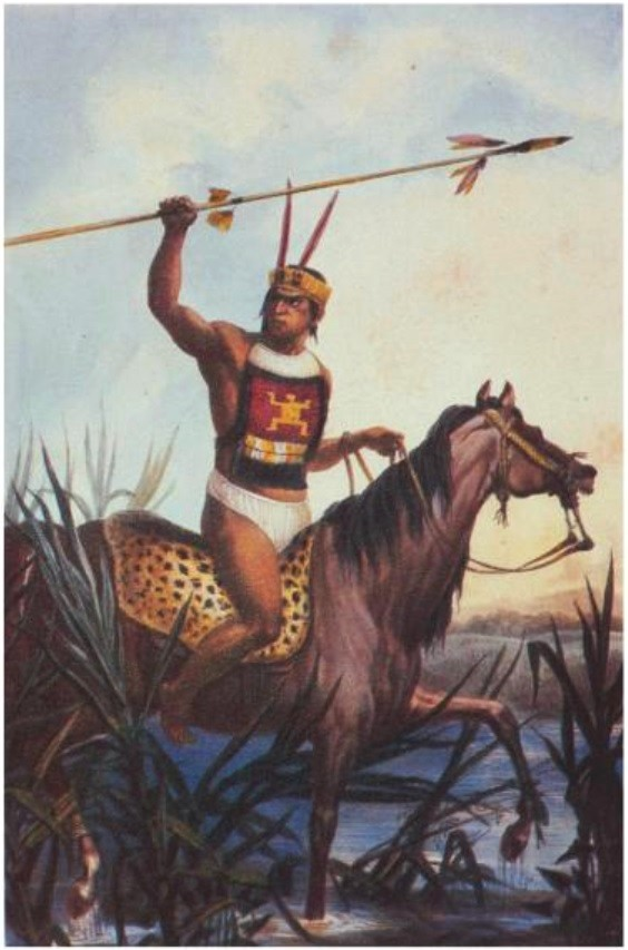 A native American chief (tribe of Charrúa). Peter Mitchell writes: Living in Uruguay and Brazil's southernmost Rio Grande do Sul, Charrúa acquired horses from the late 1500s.